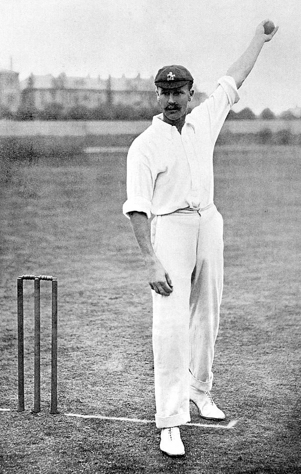 Scan of cricketer Walter Wright